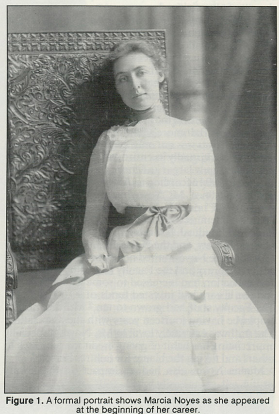 Marcia Crocker Noyes, late 1890s as she assumed the position of librarian that she held for 50 yers.